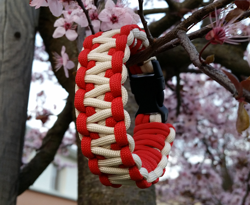 Survival bracelet with tying "King Cobra"